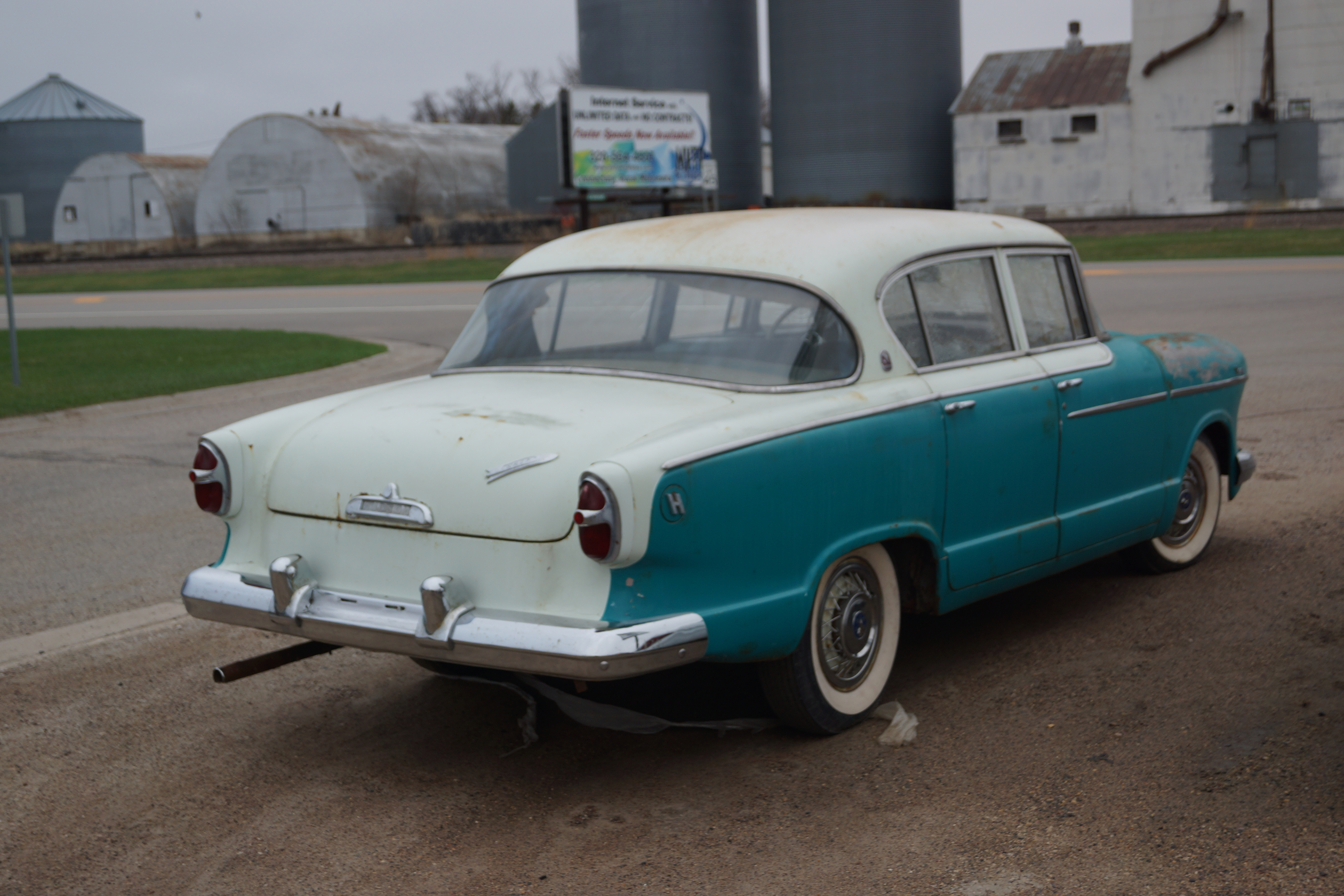 Click here for more car pictures at my Flickr site. Or here for my Car Crazy Tumblr site. Or on Twitter @DVS1mn.